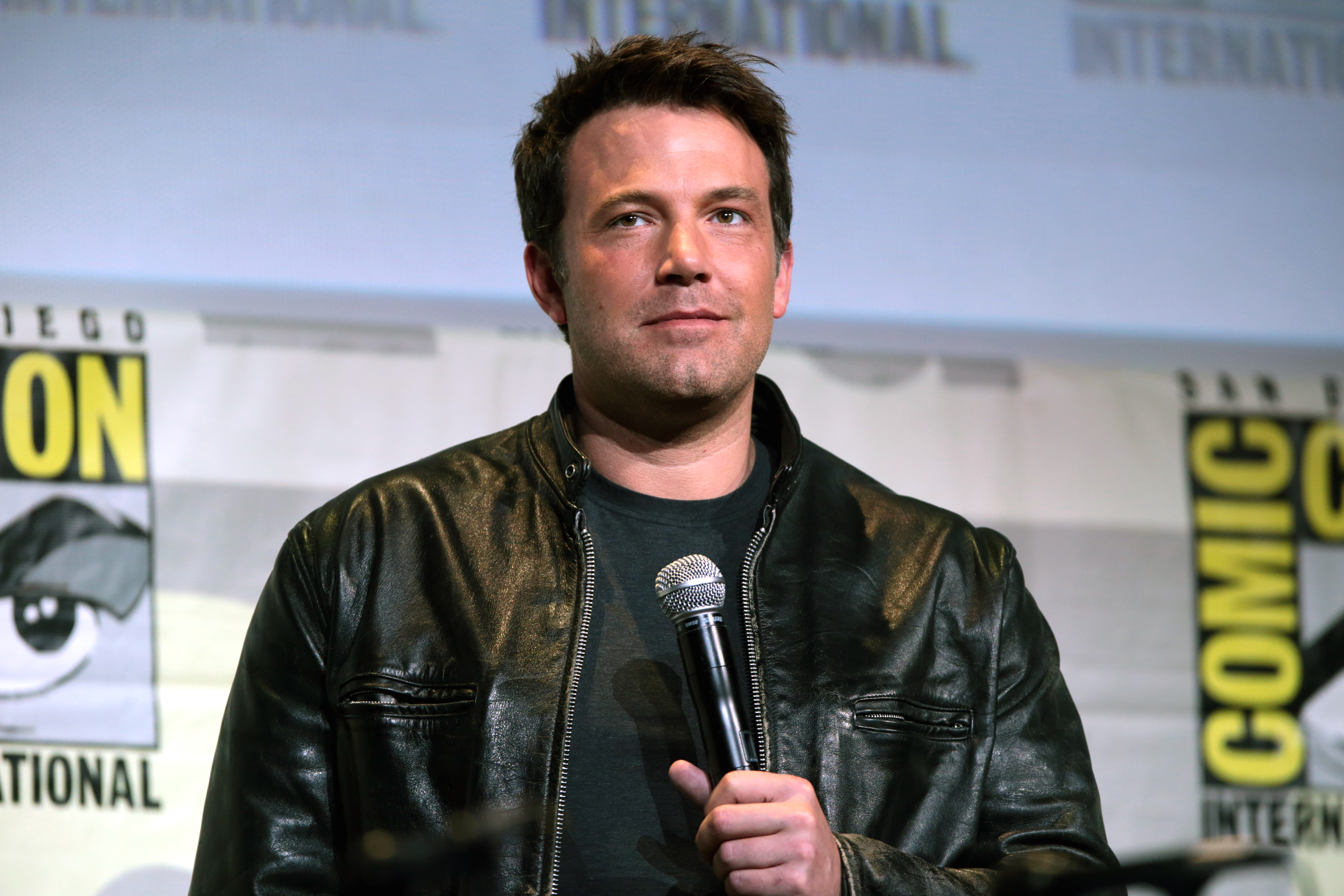 Ben Affleck speaking at the 2016 San Diego Comic Con International, for "Warner Bros. Pictures", at the San Diego Convention Center in San Diego, California.